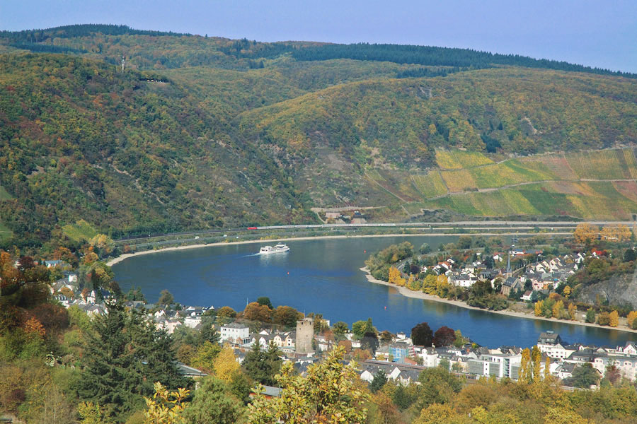 Boppard, Germany River Rhine